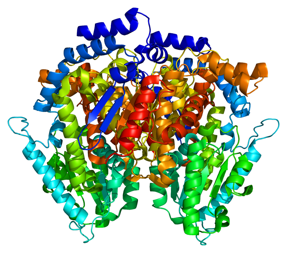 Structure of the GPI protein. Based on PyMOL rendering of PDB 1dqr.